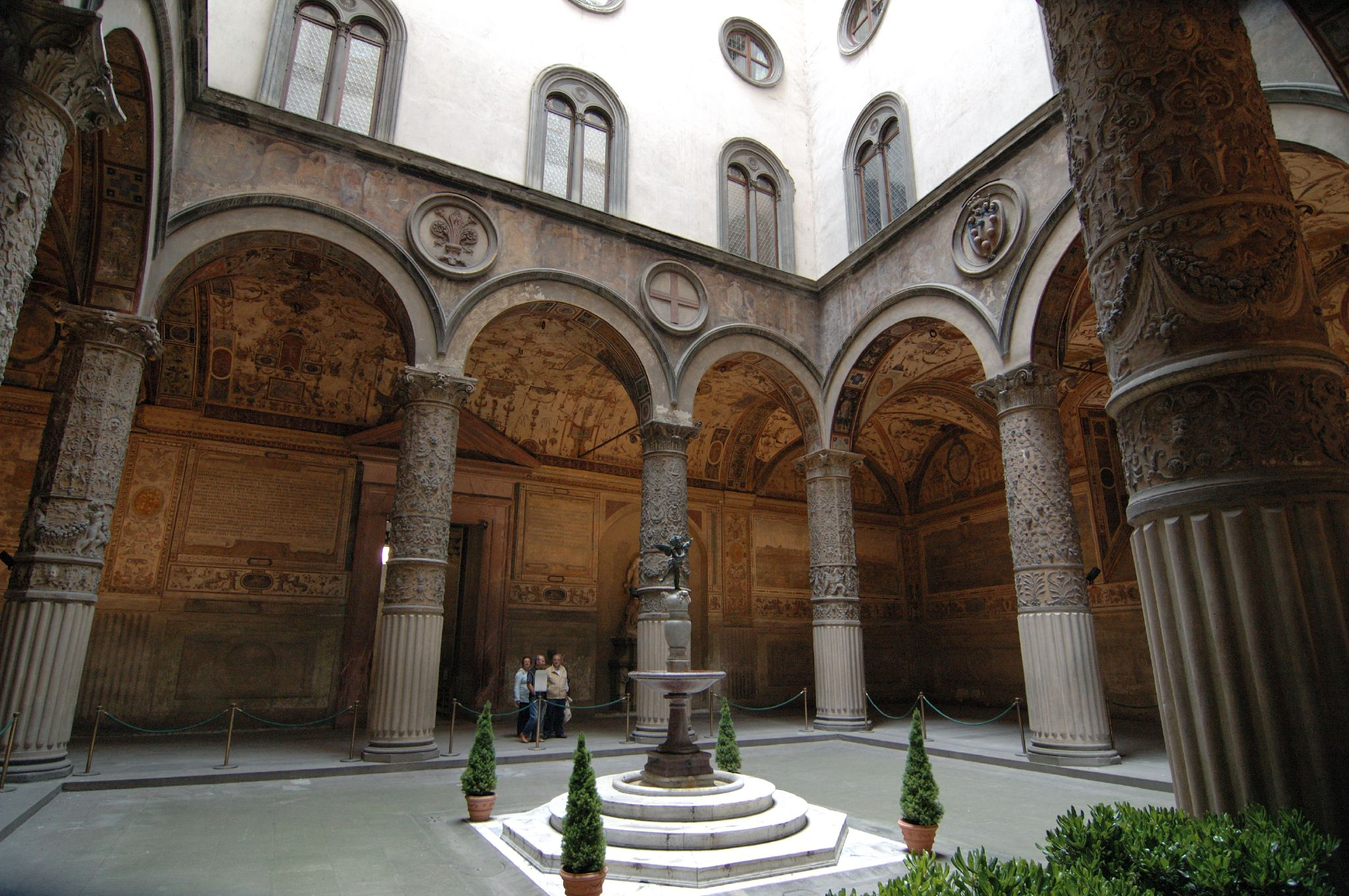 see above